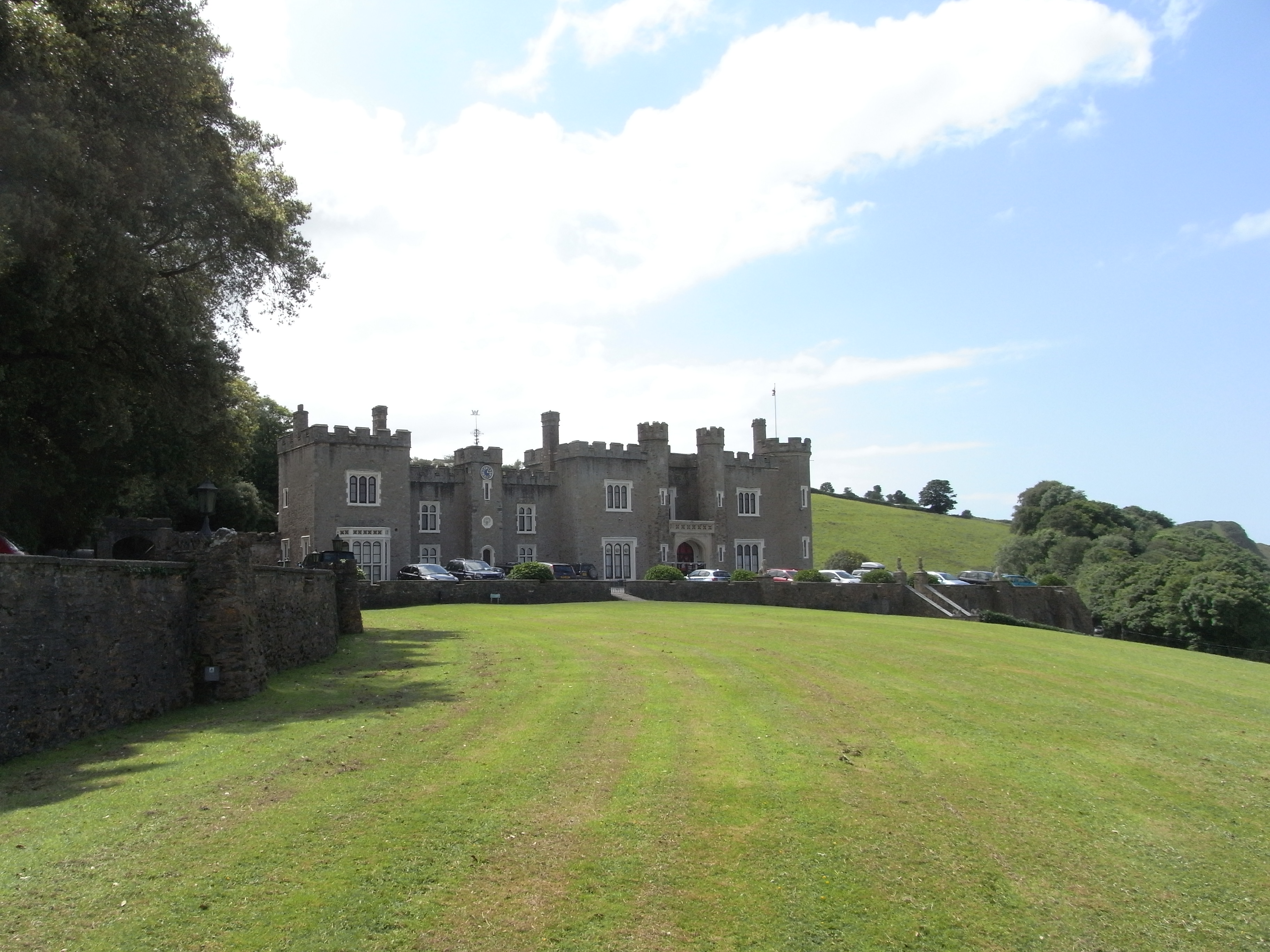 Watermouth Castle, Ilfracombe, North Devon, main entrance front